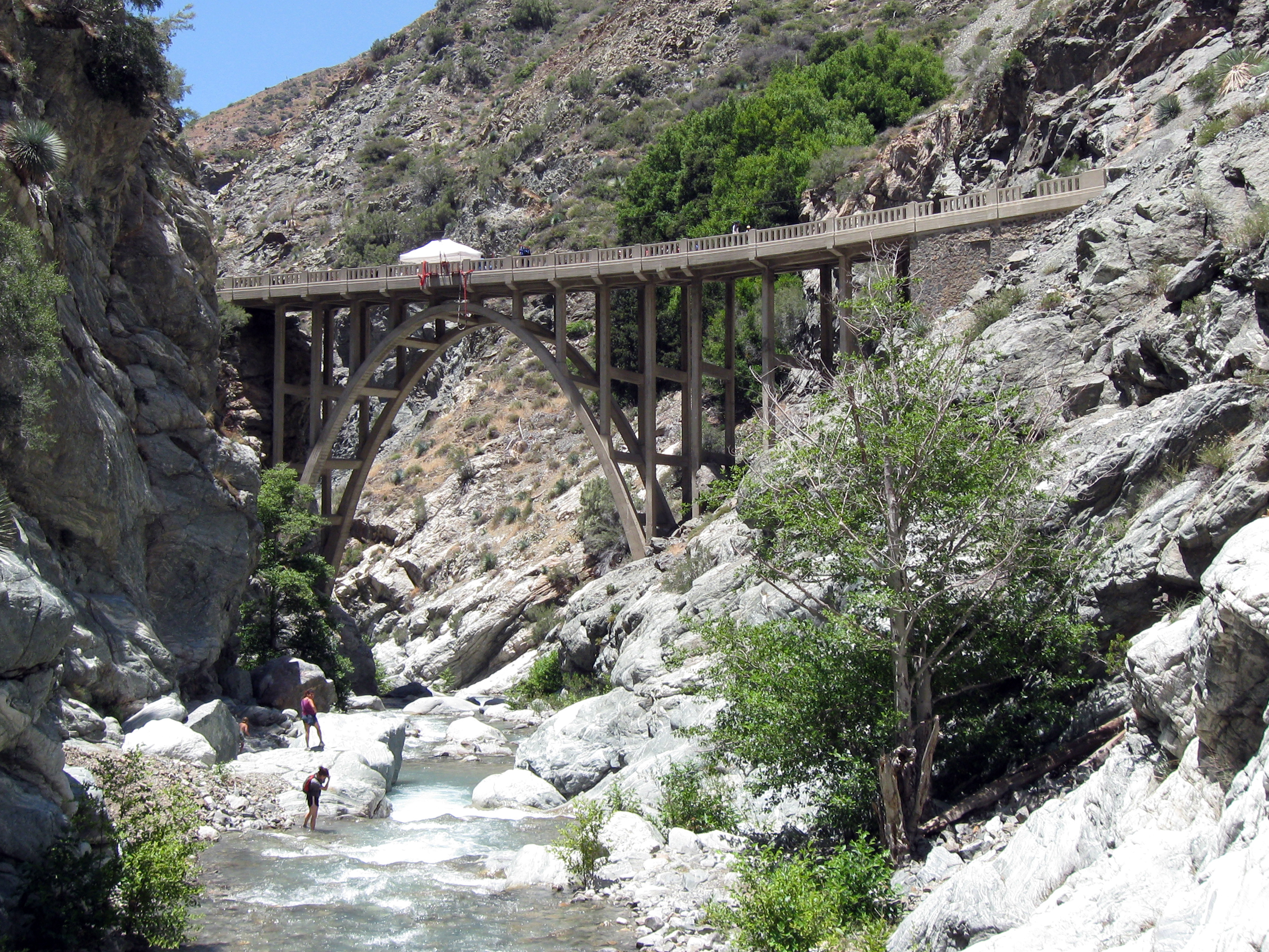 Bridge to Nowhere from upstream in the Narrows.